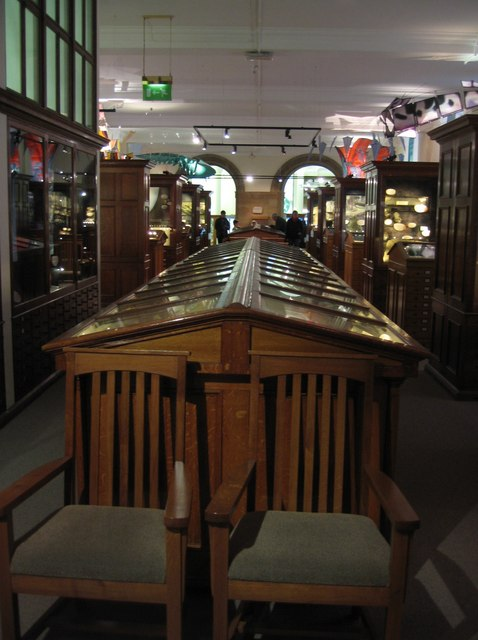 Inside the Sedgwick Museum Worth a visit just to see the fine display cabinets.